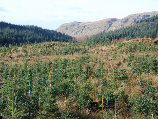 Young trees This area has been replanted with spruce trees.